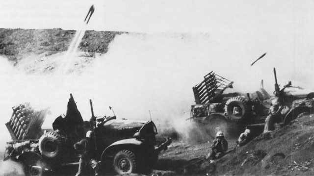 The positions from which rocket troops launched salvos of 4.5-inch rockets became very unhealthy places, indeed, as Japanese artillery and mortars zeroed in on the clouds of smoke and dust resulting from the firing of the rockets.